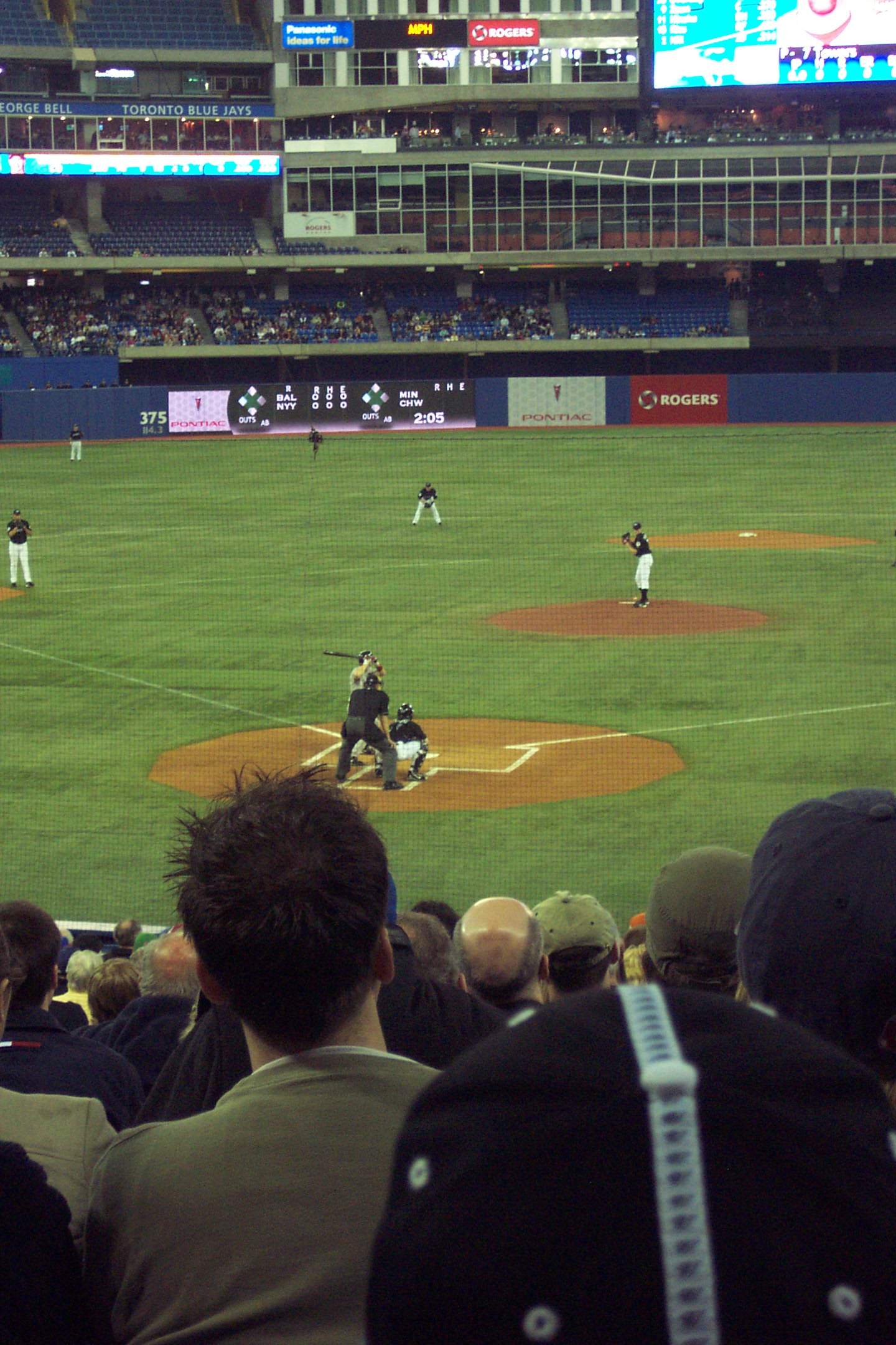 Boston Red Sox at bat at the Rogers Centre against the Toronto Blue Jays on April 23rd, 2006. Self-made photo, Release all rights. 23:56, 23 April 2006 . . Tykell . . 1,440×2,160 (863 KB)